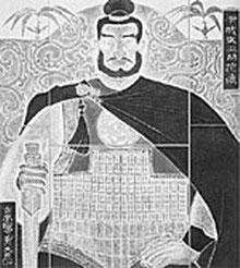 Zhao Tuo